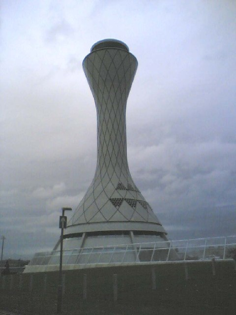 Edinburgh International Airport. The Air Traffic Control Tower. It was officially opened on the 7th November 2005. The £11m building took 15 months to build and stands 57 metres high.